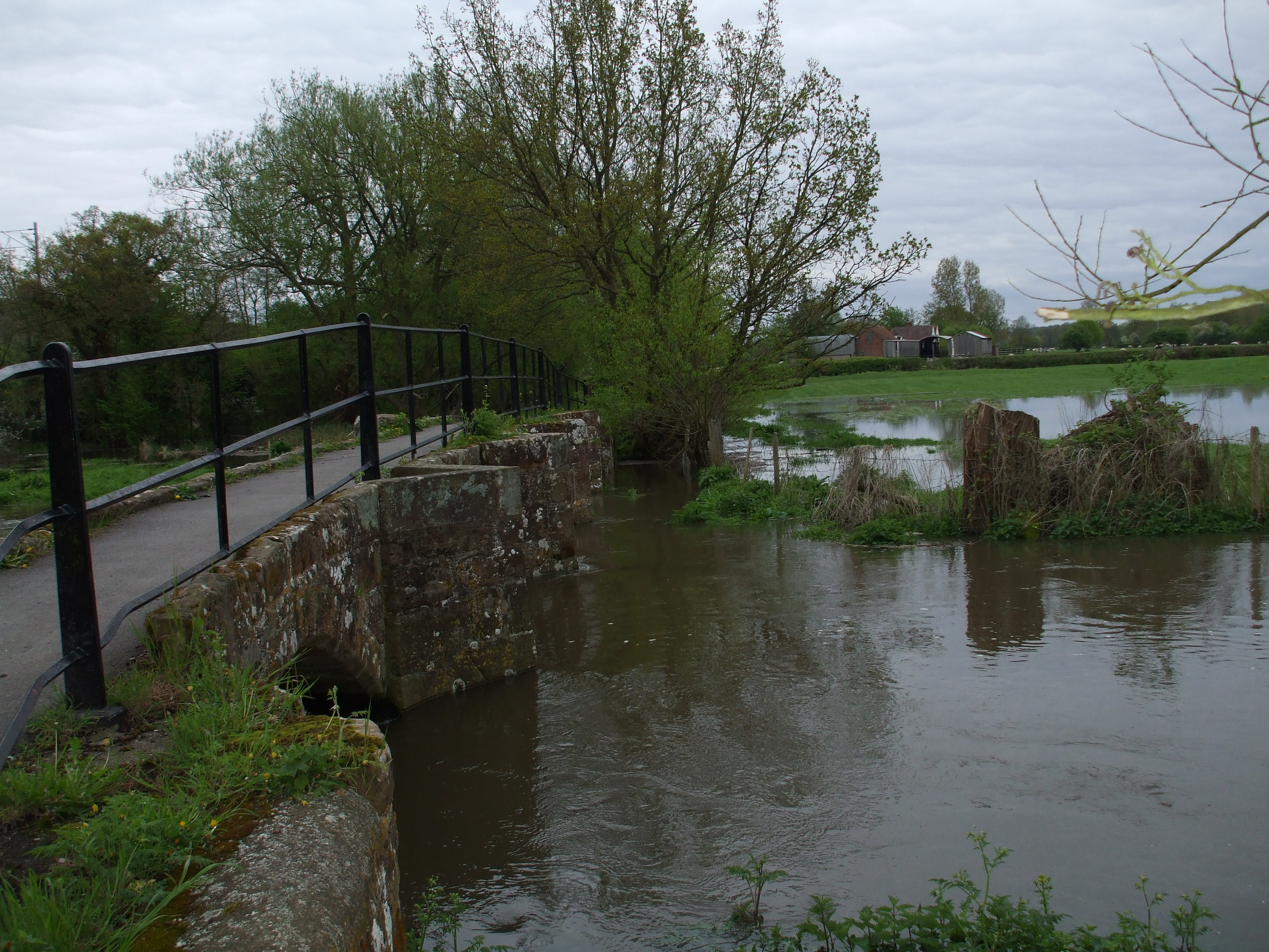 15th-century packhorse bridge over the River Blythe at Hampton-in-Arden, Warwickshire